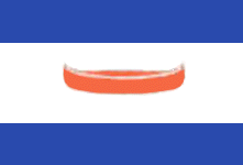 Flag of Raion Dubasari (District) of Moldova